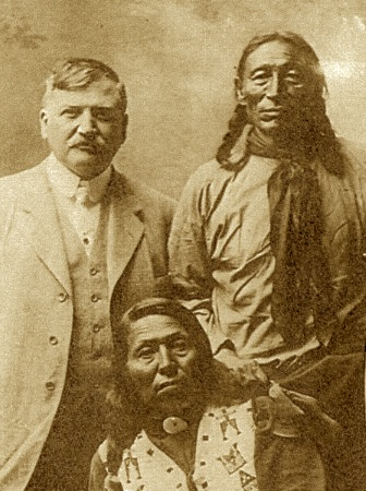 Major Israel McCreight, Chief Iron Tail and Chief Flying Hawk, 1911-1912. Other information This photo is cropped from a version of the image with other members of the McCreight family taken the same day with the same subjects. This work is in the public domain because it was published in the United States between 1923 and 1963 and although there may or may not have been a copyright notice, the copyright was not renewed. Unless its author has been dead for the required period, it is copyrighted in the countries or areas that do not apply the rule of the shorter term for US works, such as Canada (50 pma), Mainland China (50 pma, not Hong Kong or Macao), Germany (70 pma), Mexico (100 pma), Switzerland (70 pma), and other countries with individual treaties. See Commons:Hirtle chart for further explanation.